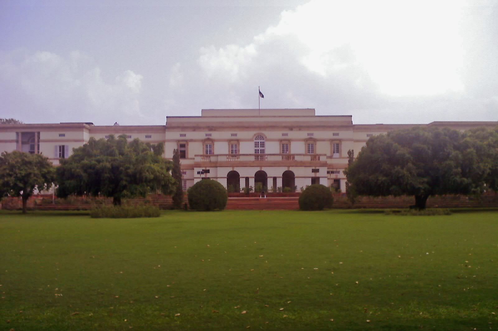 तीन मूर्ति भवन, नई दिल्ली